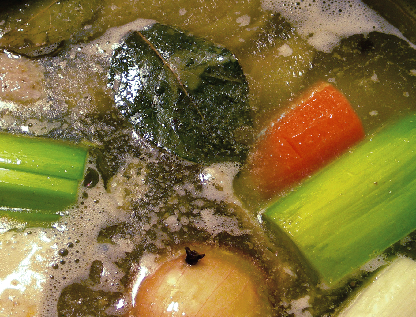 Preparing of chicken broth